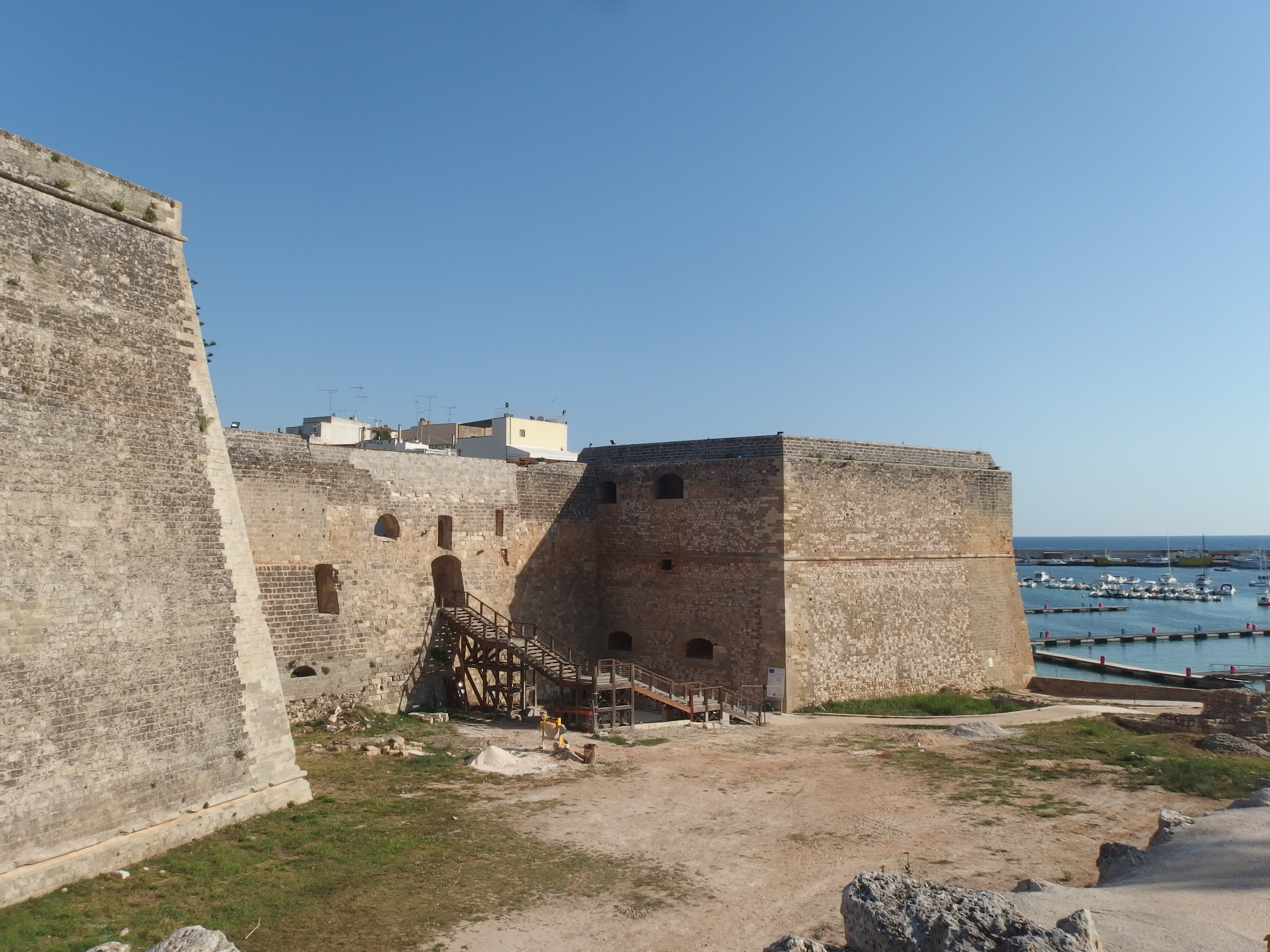 Otranto, Apulia, Italy. Castle.